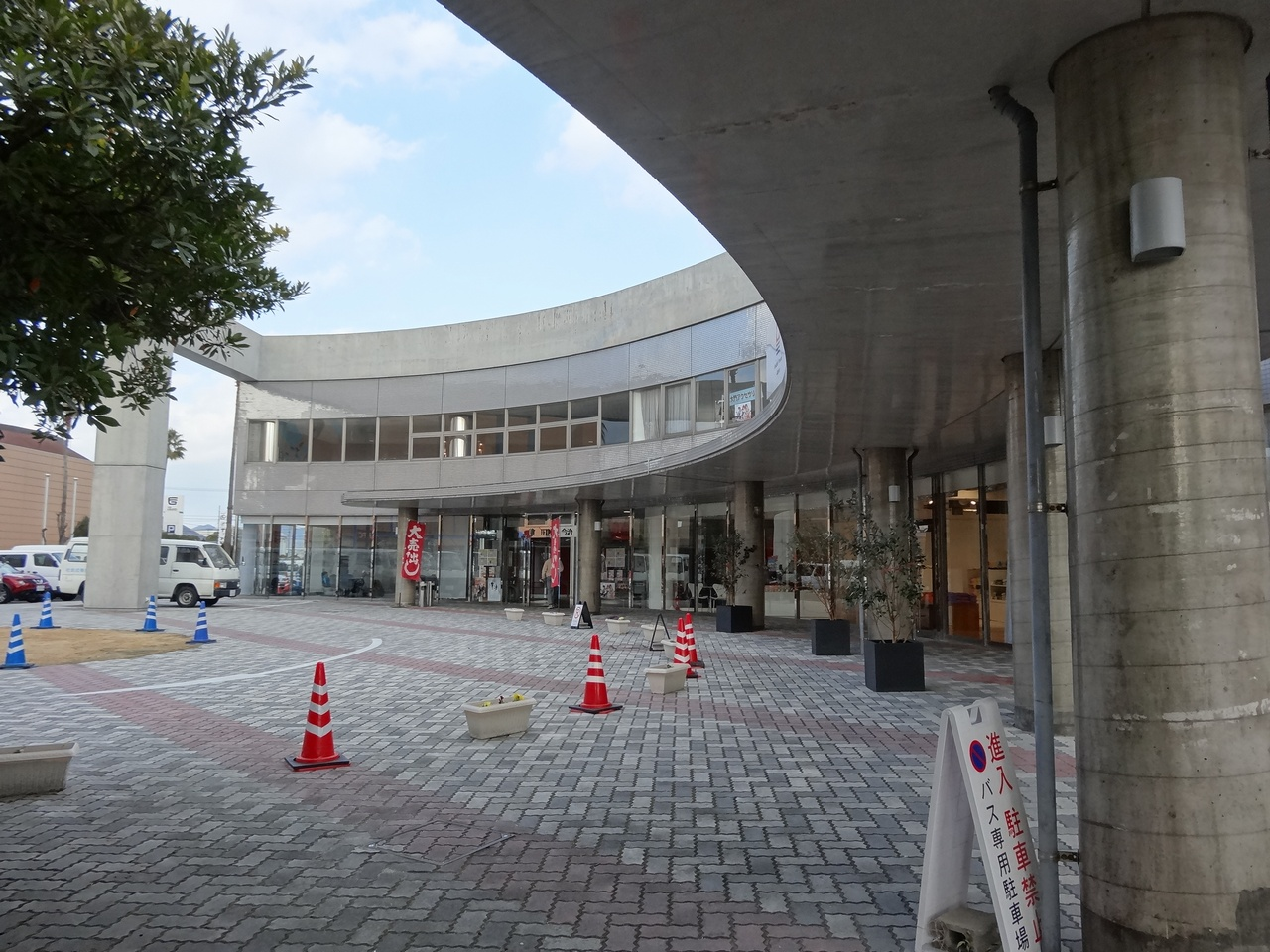 Texport Imabari (Imabari City, Ehime Prefecture, Japan)